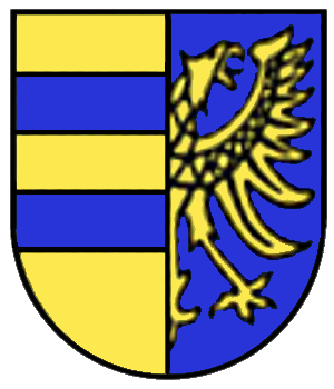 Coat of arms of Regglisweiler in Dietenheim